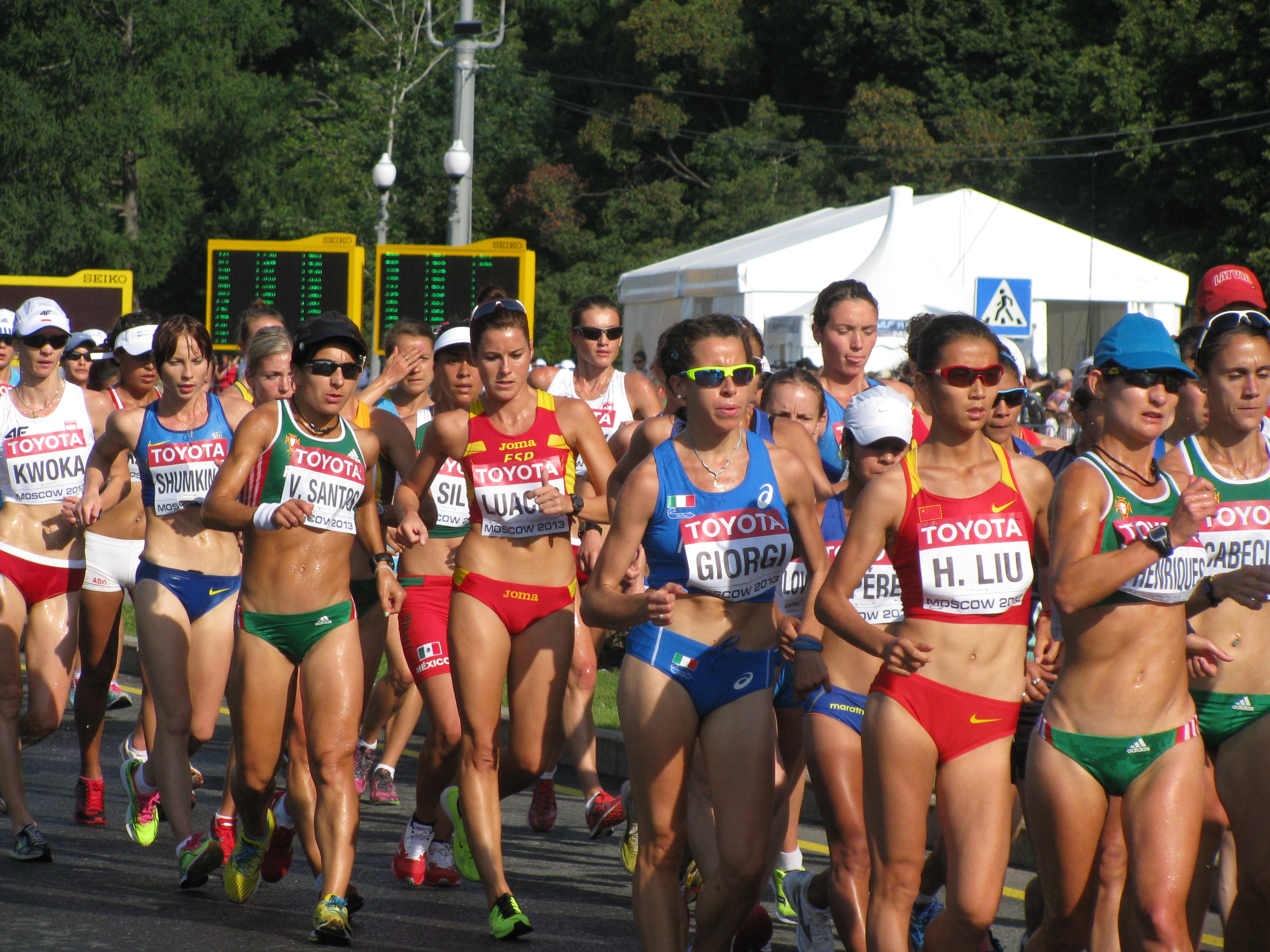 Women's 20 kilometres walk at the 2013 World Championships in Athletics